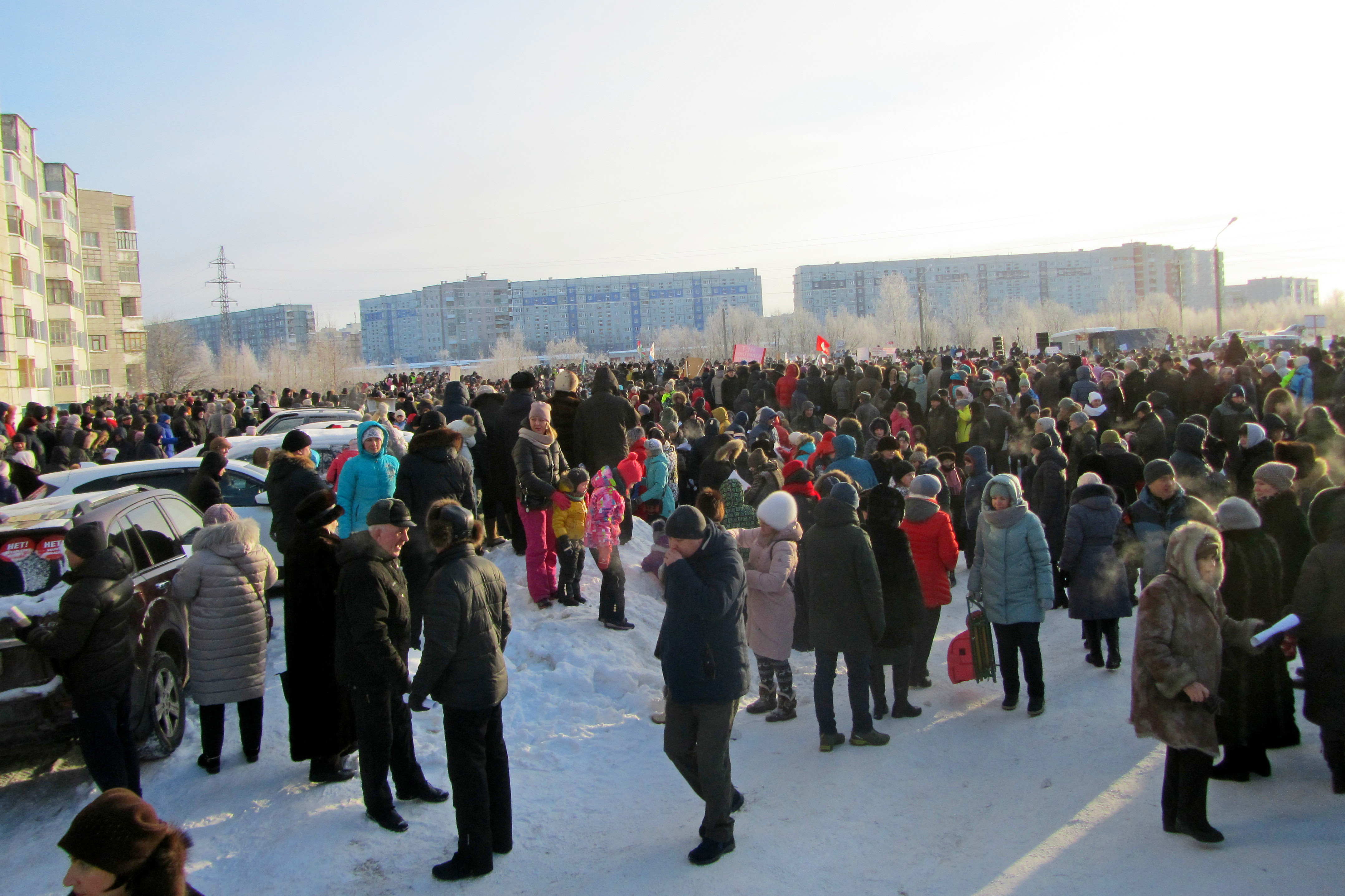 People of Severodvinsk. Demonstrations and protests in Severodvinsk.